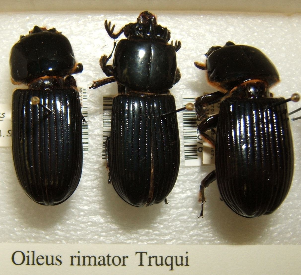 Oileus rimator adult taken by Shawn Hanrahan at the Texas A&M University Insect Collection in College Station, Texas.